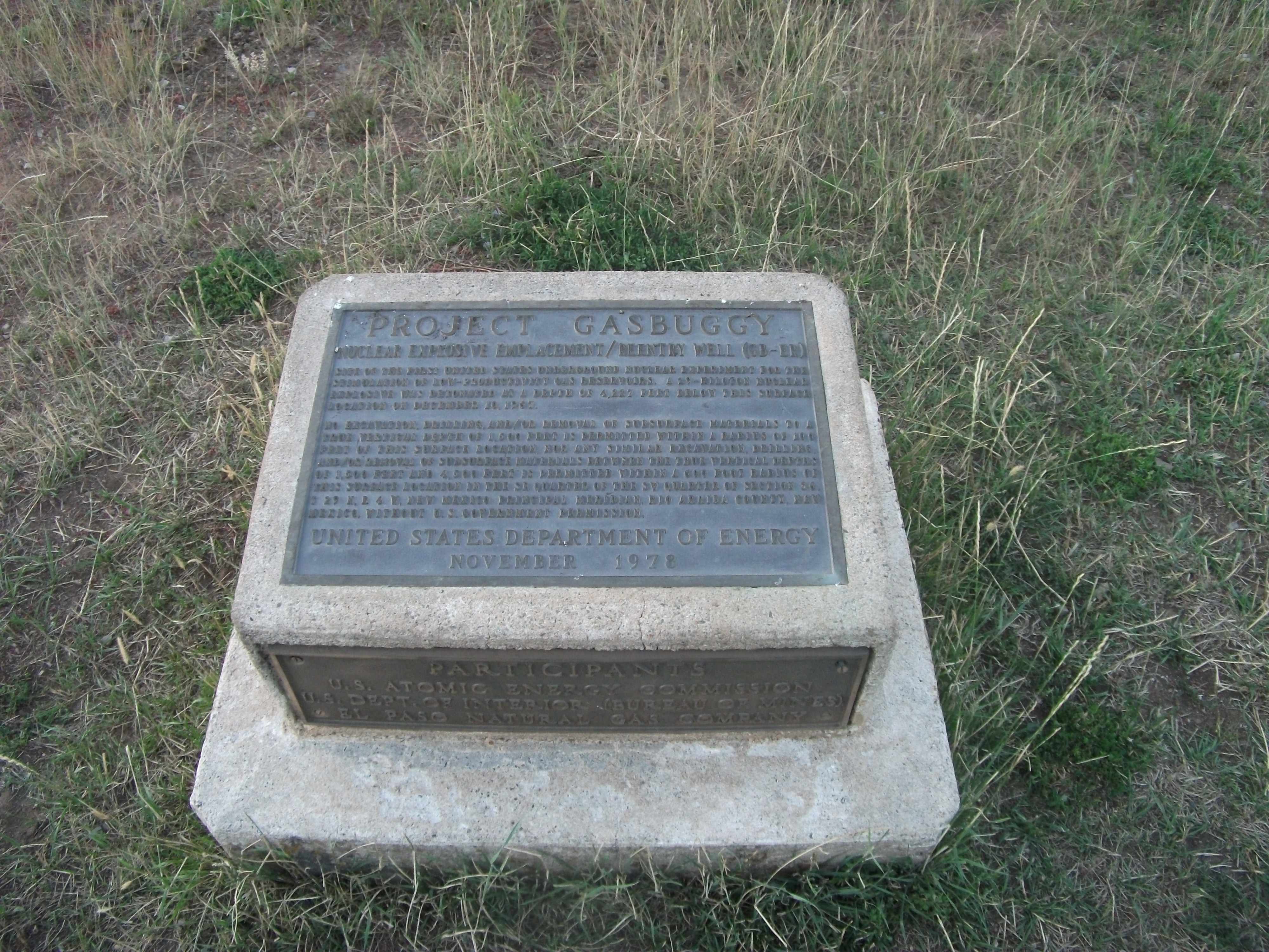 Photograph of the Project Gasbuggy placard in Rio Arriba County, New Mexico, USA, taken by myself on 8/15/11. The placard itself is the work of the United States government.